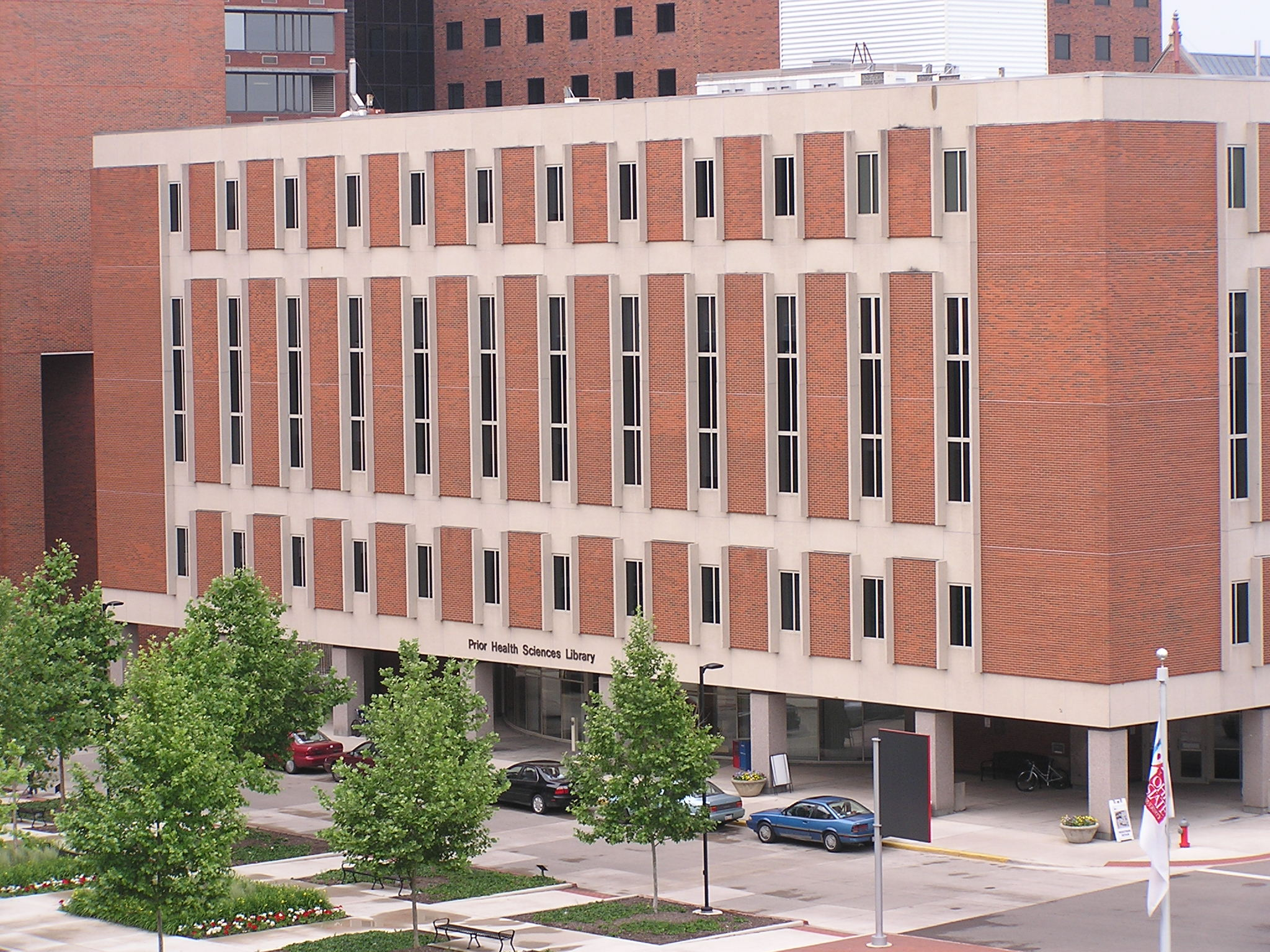 Taken with 3.2 megapixel camera, so pixel dimensions are 2048x1536.